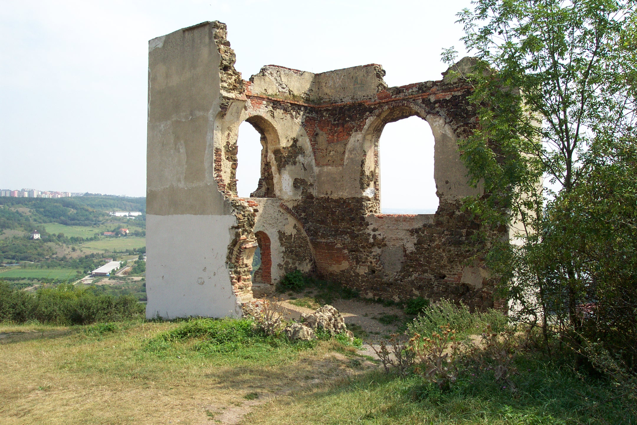 Baba ruinshelp